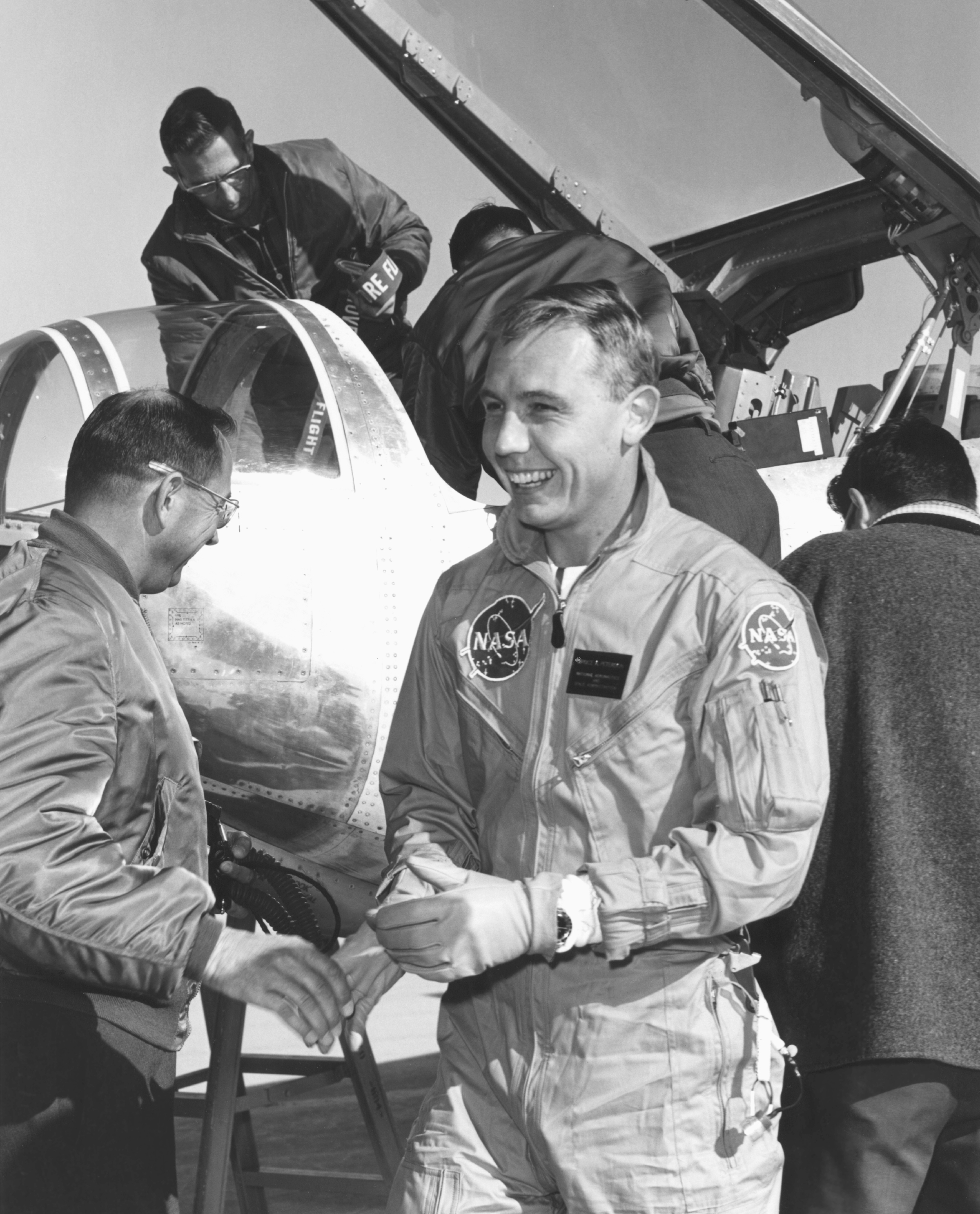 Pilot Bruce Peterson's reaction after he completes the first flight of the HL-10 lifting body aircraft.